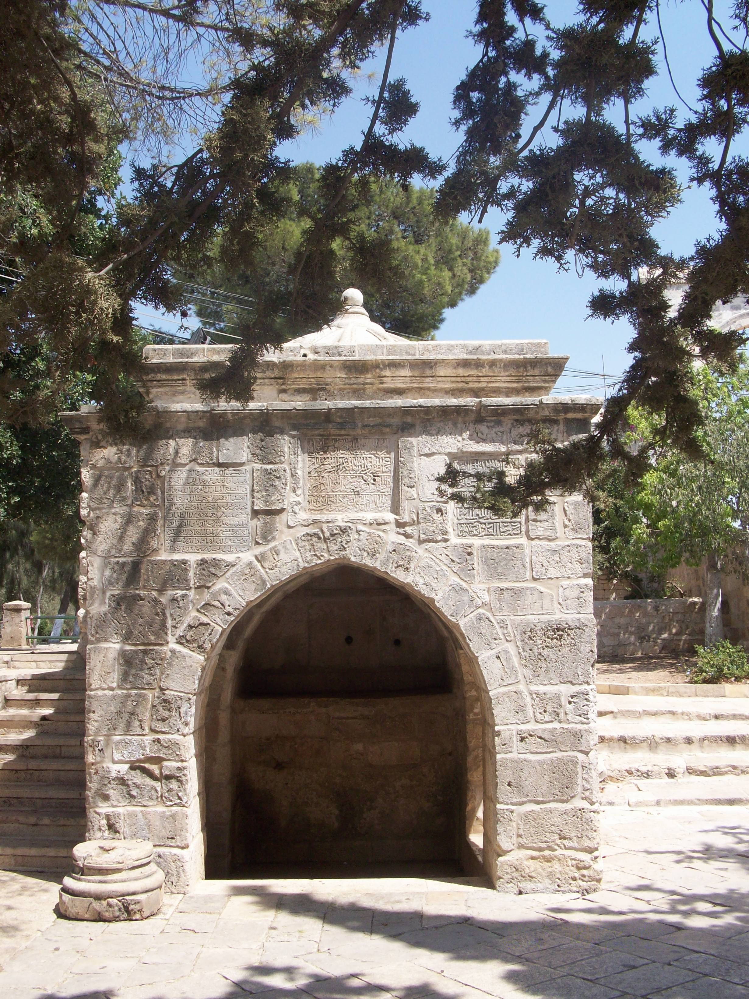 سبيل شعلان - المسجد الأقصى